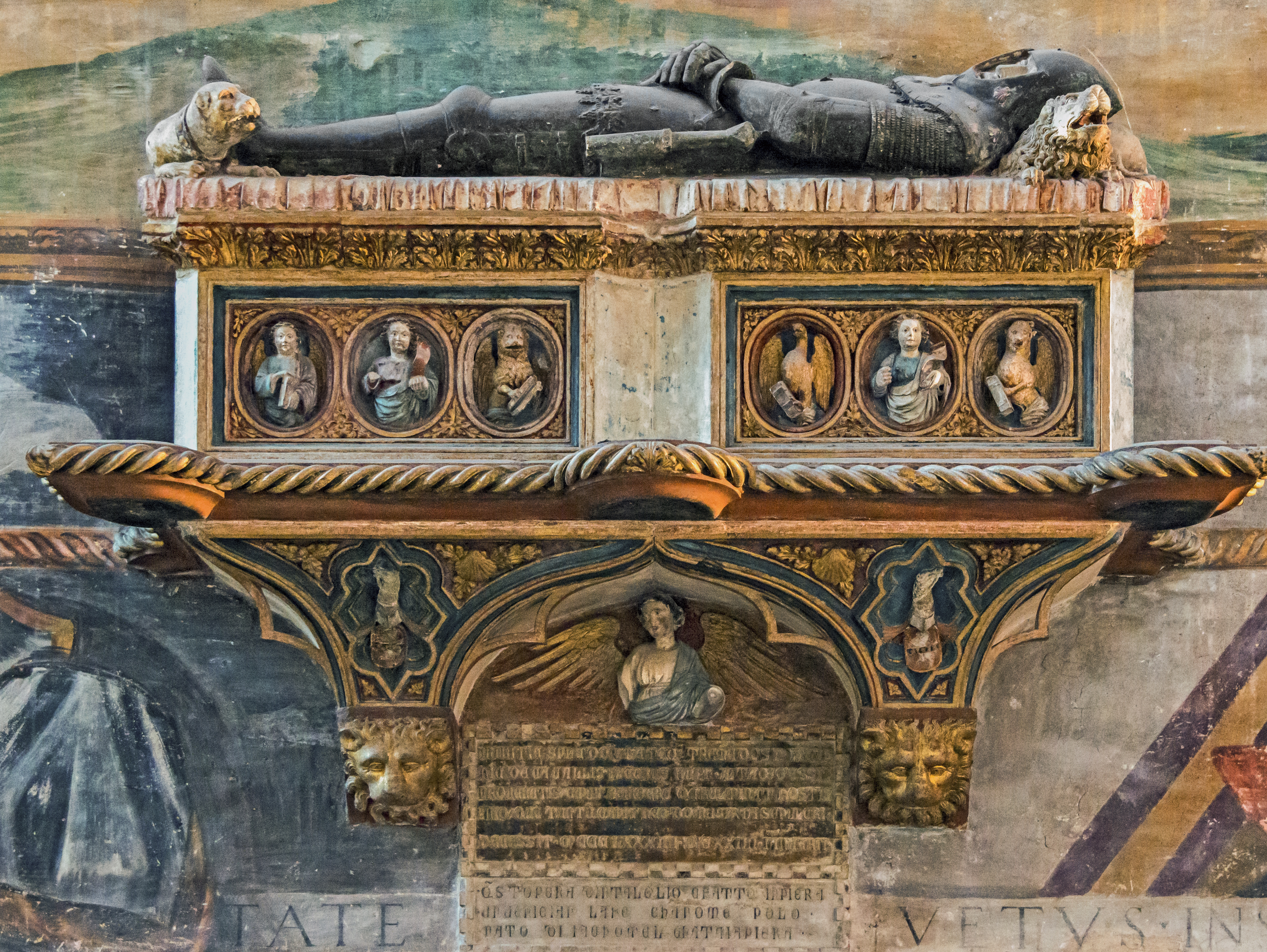 Santi Giovanni e Paolo in Venice. Chapel of Pius V - Monument to Giacomo Cavalli by brothers Jacobello dalle Masegne and Pierpaolo dalle Masegne.